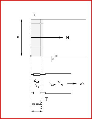 Microwave